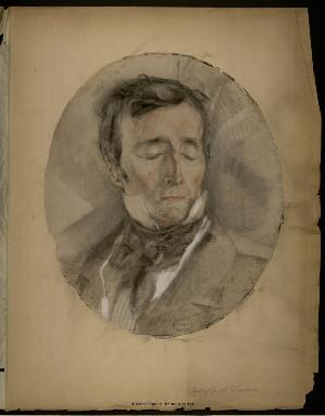 Engraving portrait of Louis-Benjamin Francoeur from the Ecole Nationale Supérieure des Beaux-Arts, France